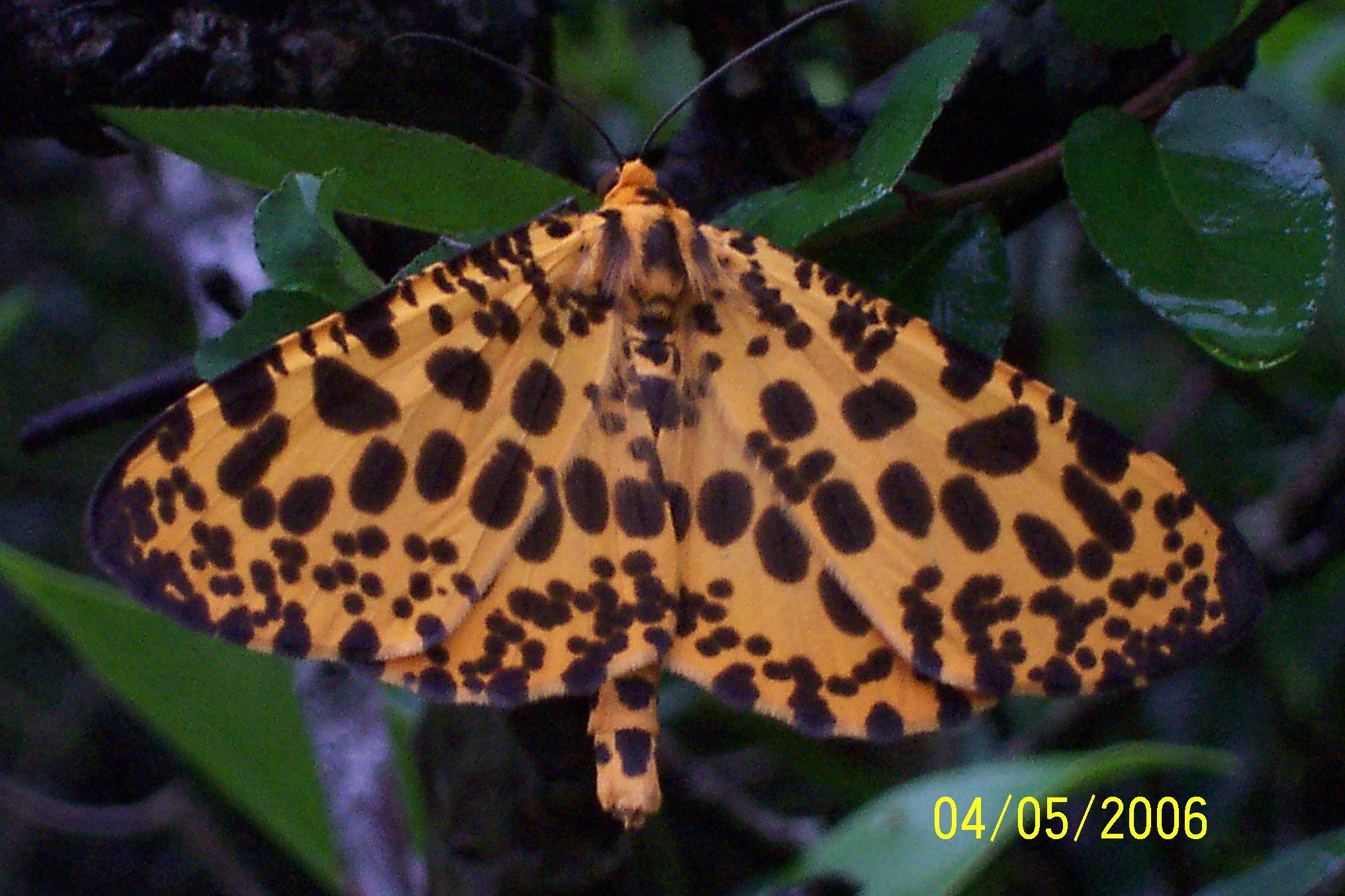 indian moth seen near the High Island Reservoir, in Hong Kong